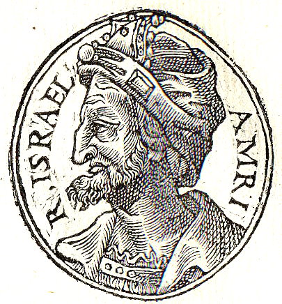 Amri(Omri) was king of Israel and father of Ahab.